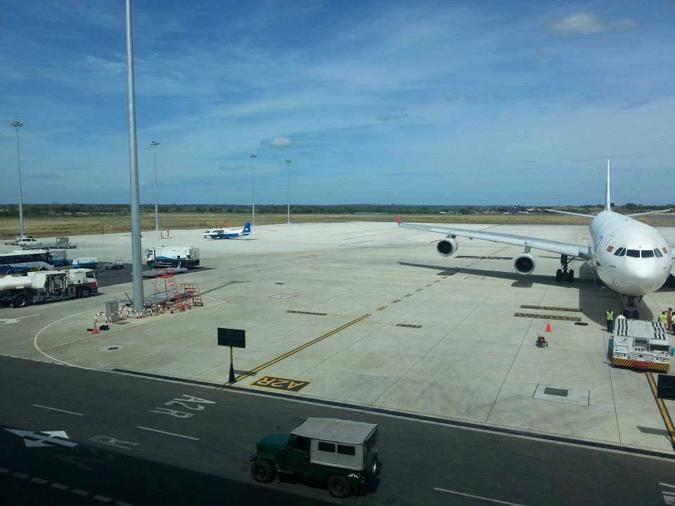 SriLankan Airlines a340 at Hambantota intl airport